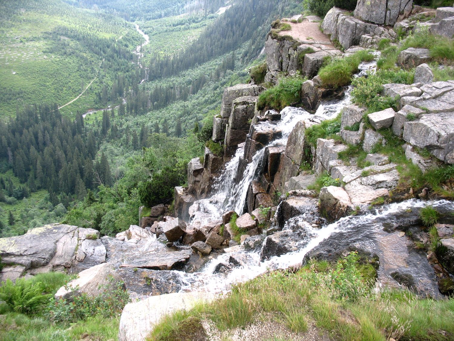 The watterfall Pančavský vodopád in the Krkonoše Mts., Czech republic